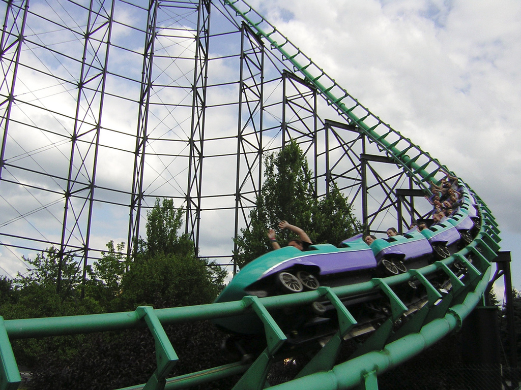 Phantom's Revenge at Kennywood.